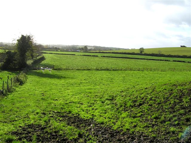 Trickvallen Townland Looking south-west